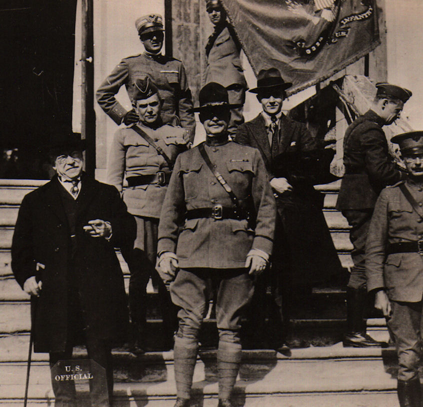 NARA Record: Scene 69. Shot showing officials arriving at headquarters. Villa Angelica, near Trevioo, Italy, October 12, 1918 - Brig. Gen. Charles G. Treat, Samuel W. Gompers, Col. Wm. Wallace and party arriving at headquarters, 332nd Infantry. Note: Mr. Samuel Gompers, the famous labor leader, poses for a photograph in front of the villa with Colonel William Wallace and Brigadier General Charles G. Treat. The 332nd Colors in the background. October 12, 1918. NARA.